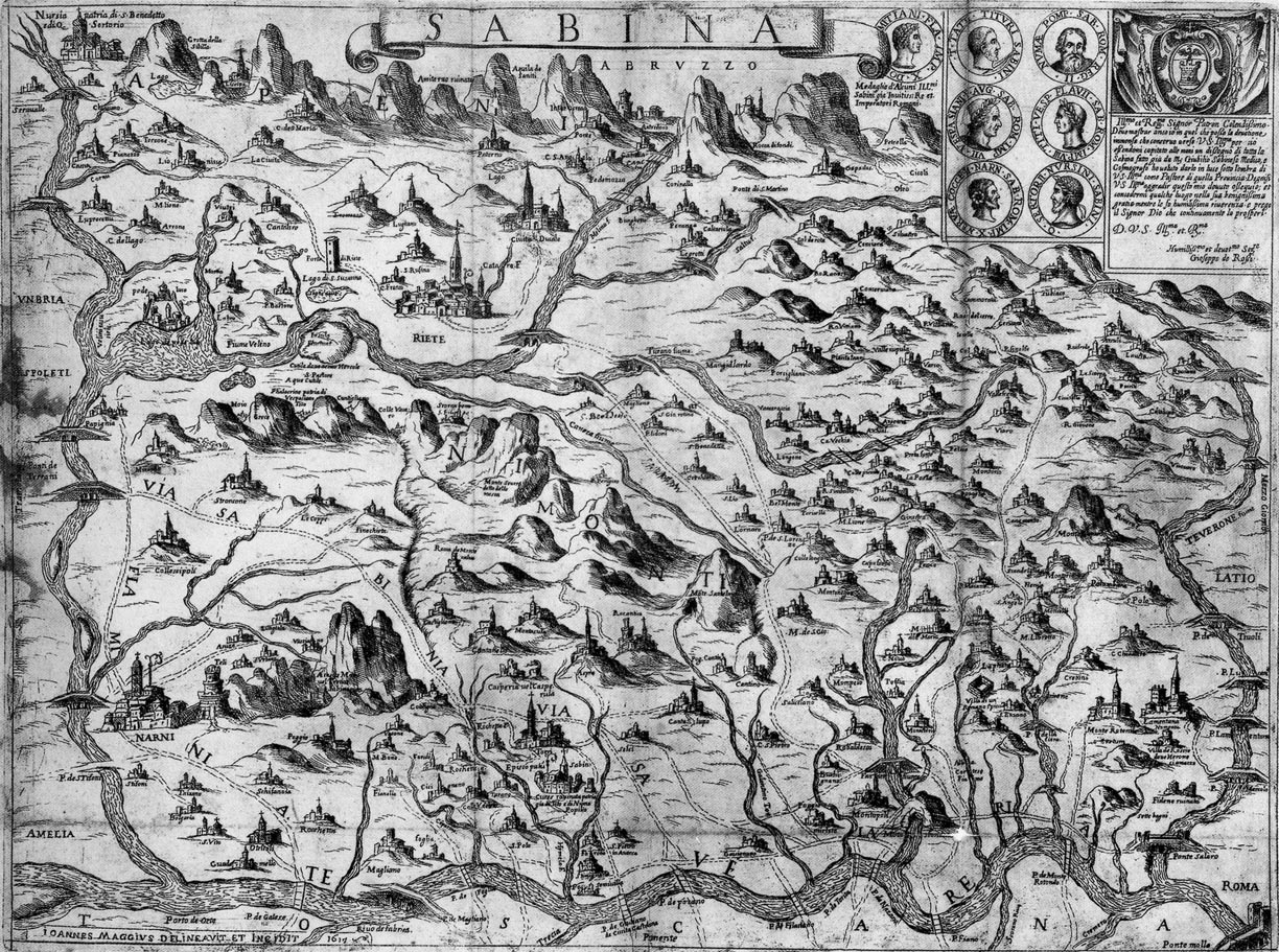 Map of the Sabina Territory Lazio Italy 1790